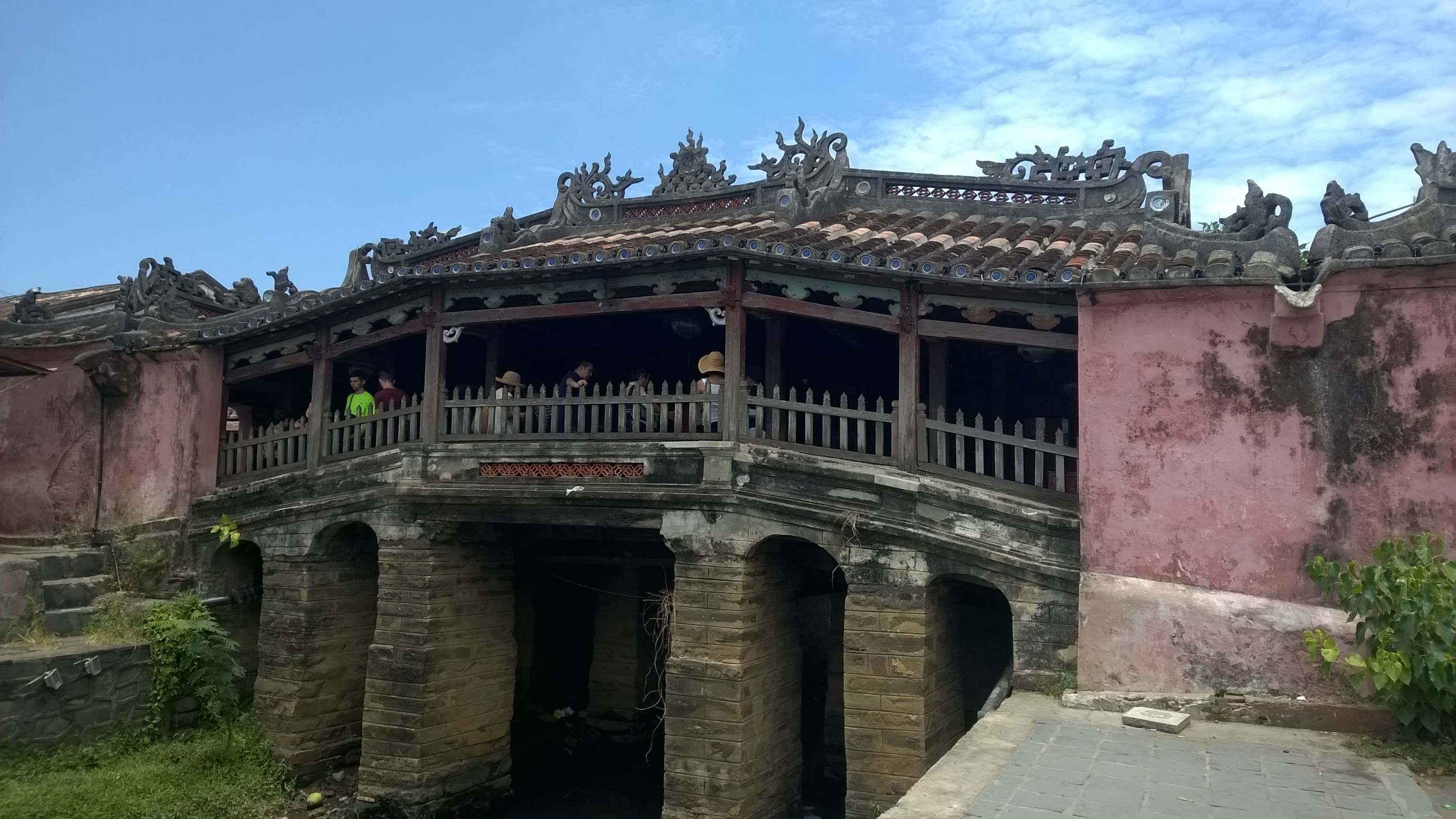 The Japanese covered-bridge of Hoi An in 2015.